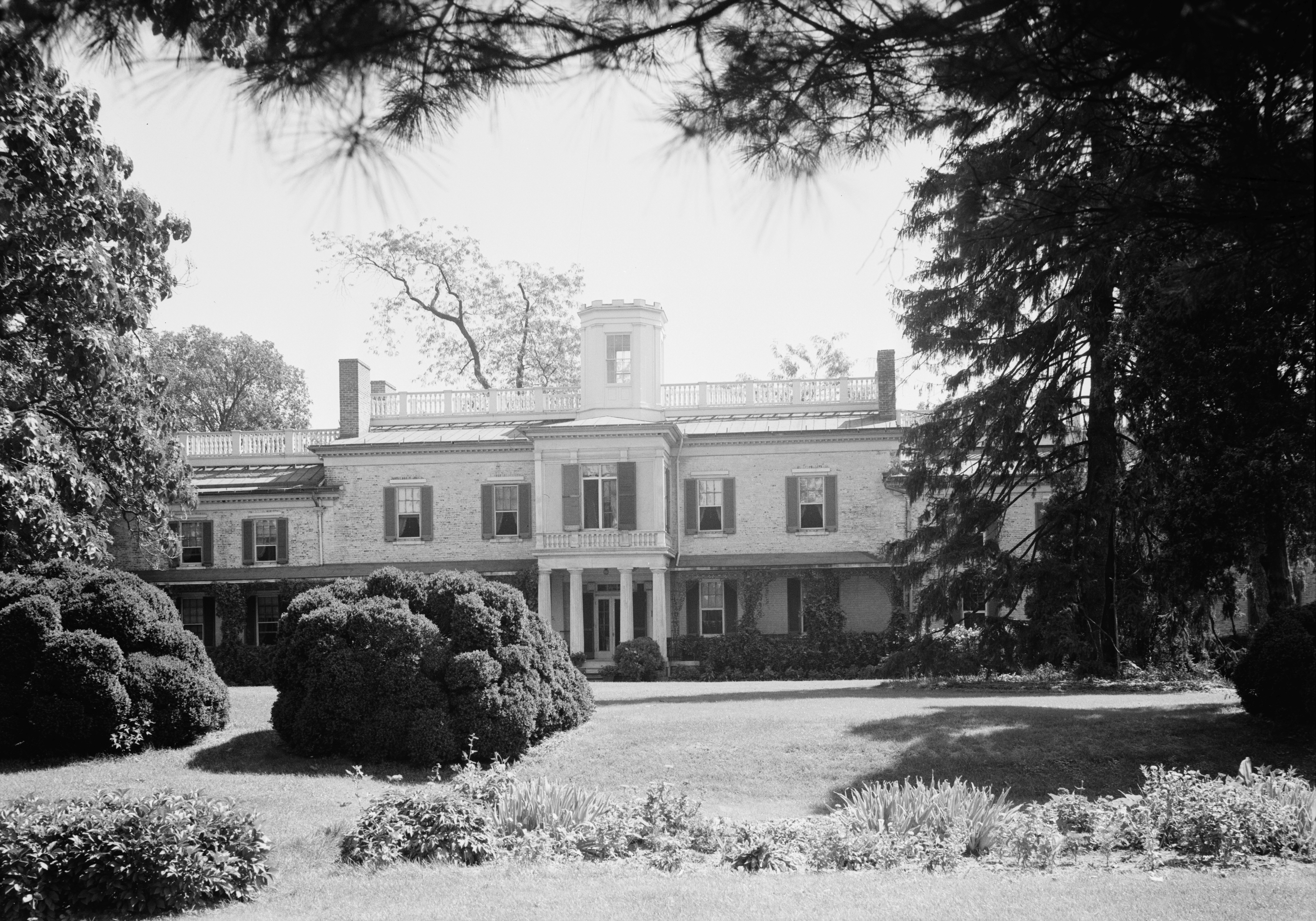 Historic American Buildings Survey photo of Doughoregan Manor